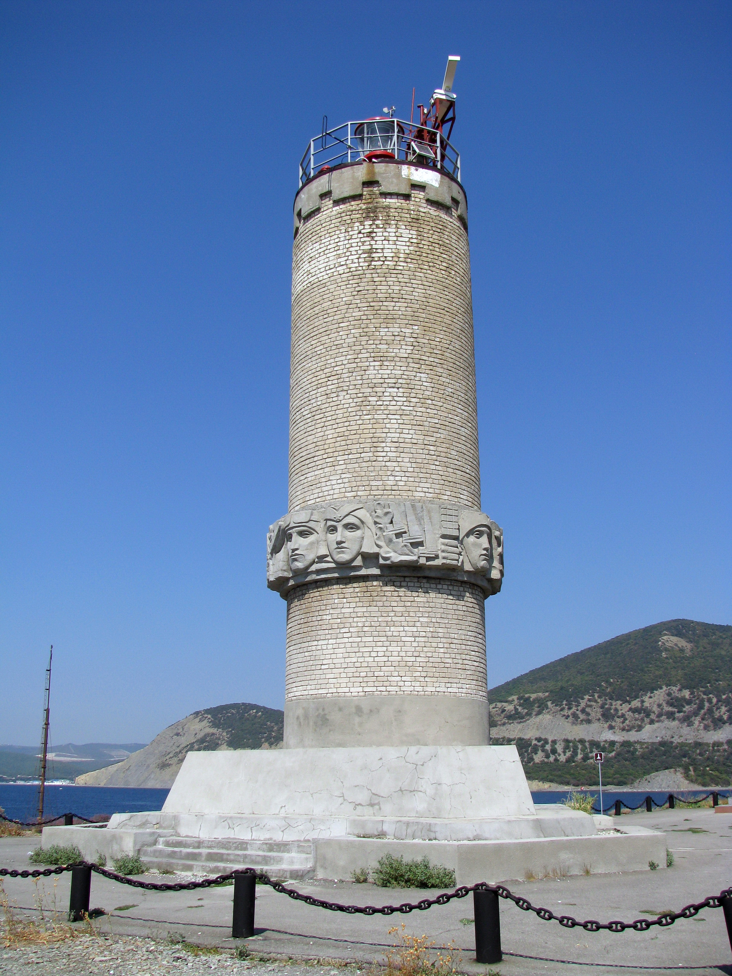 Utrish lighthouse, Ostrov Utrish near Bolshoy Utrish village